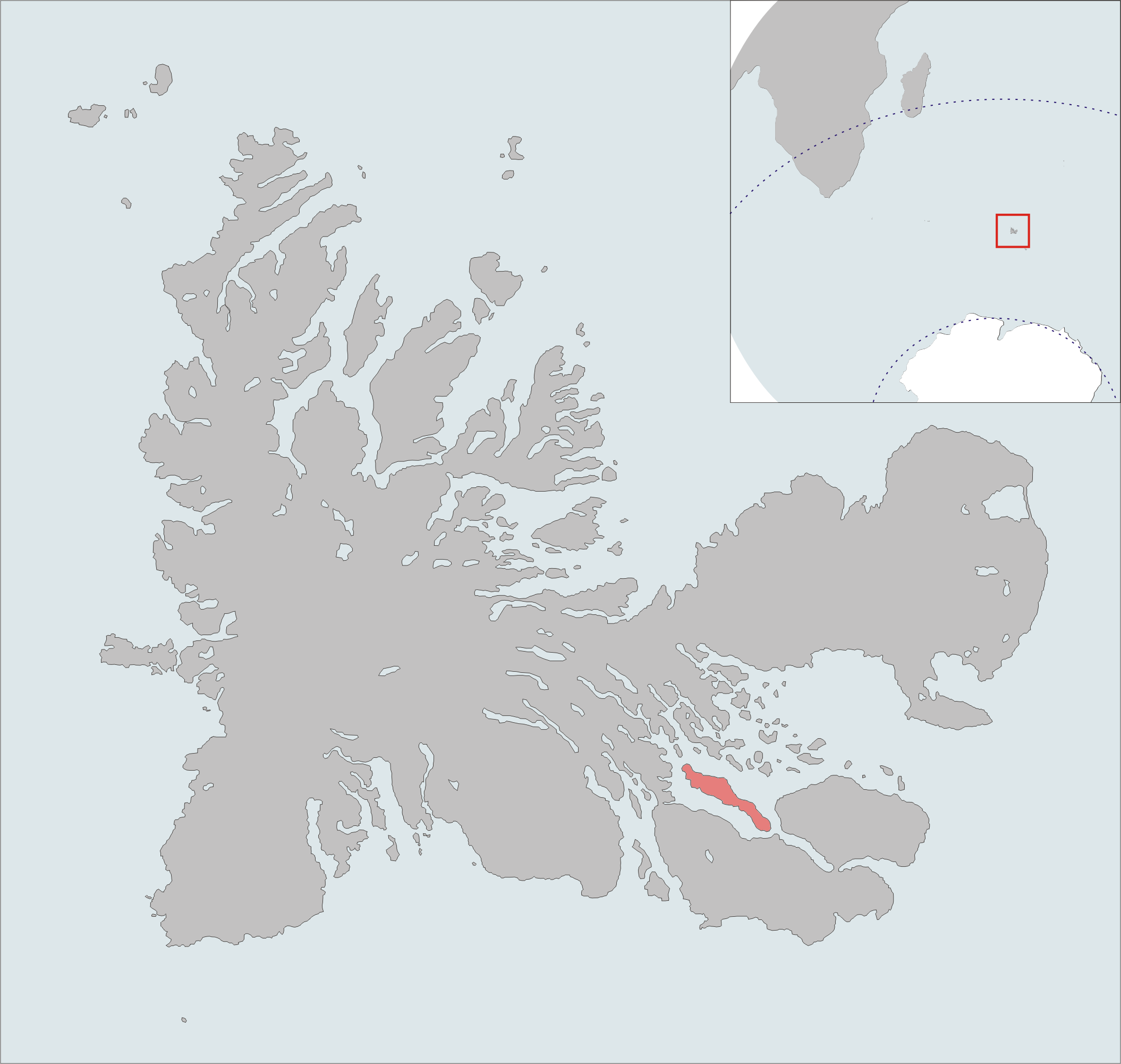 Position of Île Longue, in the Kerguelen Islands. Drawn by Varp and coloured by User:PoM.